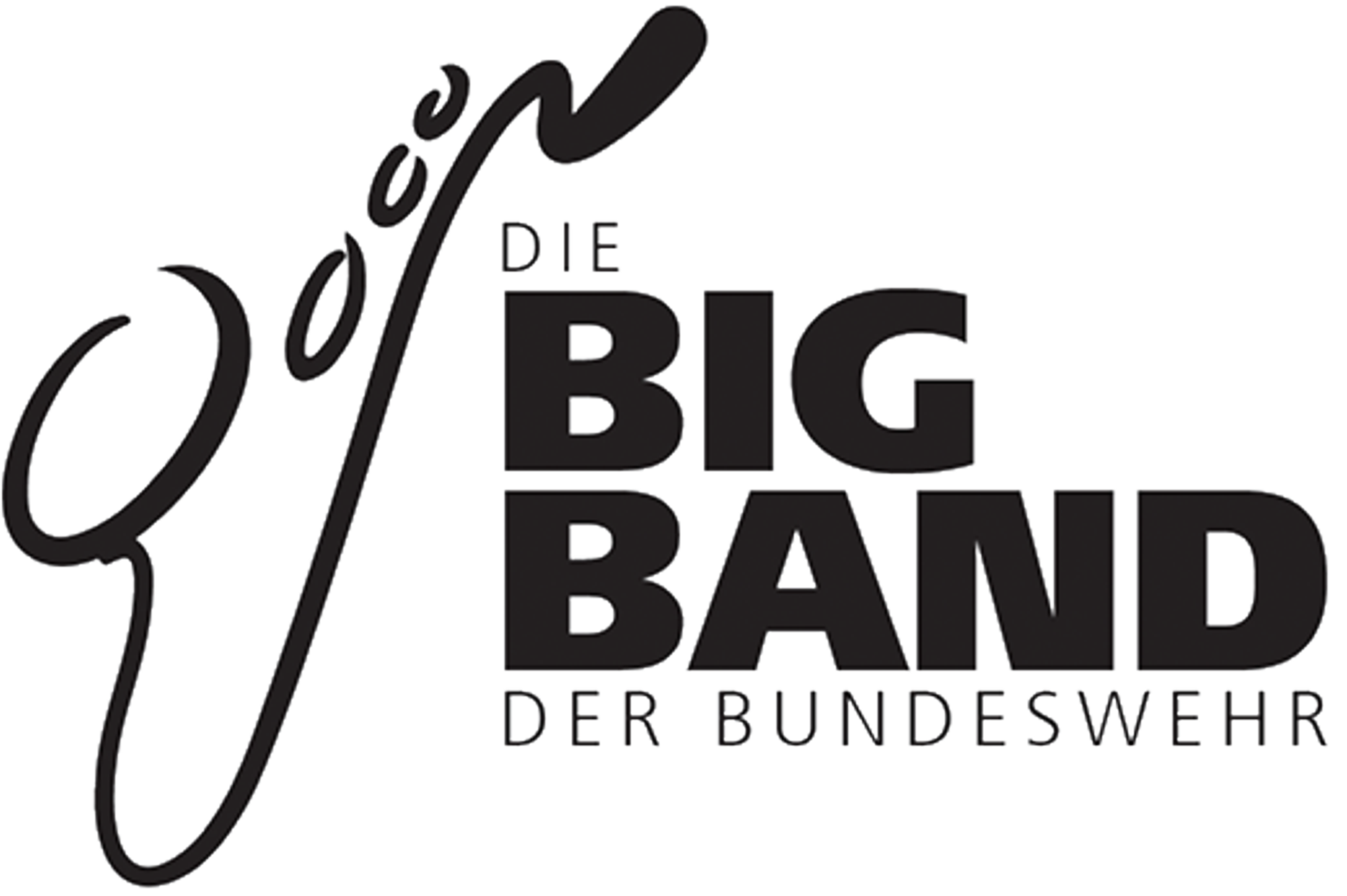 Internal coat of arms of the Bundeswehr (Armed Forces of the Federal Republic of Germany). → Remarks on naming and categorization scheme